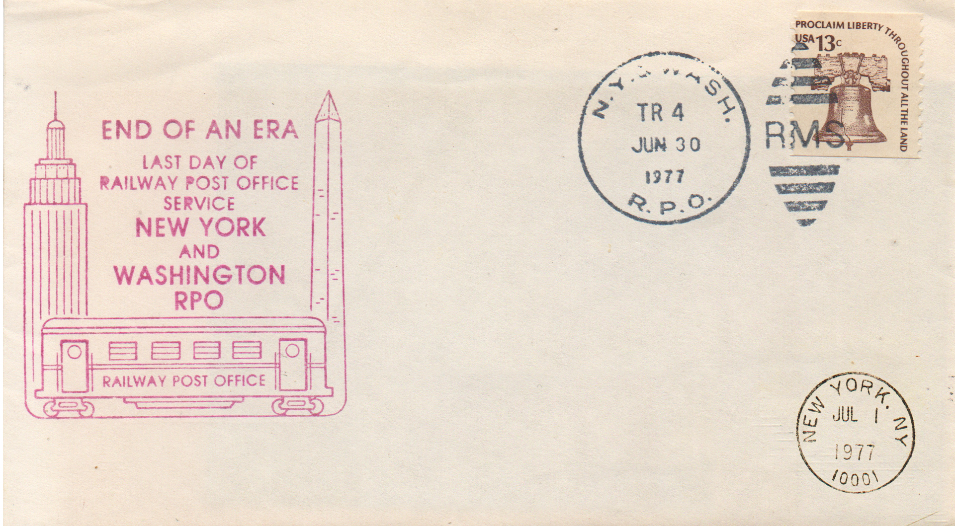 Cachet cover carried on the New York/Washington RPO service on its last day of operation on June 30, 1977 from Union Station, Washington, DC to Pennsylvania Station, New York on Pennsylvania Railroad Train #4. Cancellation: CDS with RMS killer "N.Y. & WASH. R.P.O. TR 4 JUN 30 1977" Backstamp: CDS "NEW YORK, NY 10001 JUL 1 1977"